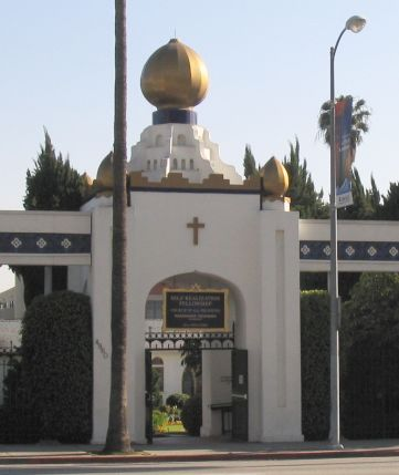 Gateway to the gardens of the Self-Realization Fellowship on Sunset Boulevard in Los Angeles, California. 2005. As photographer I release this image to the public domain.